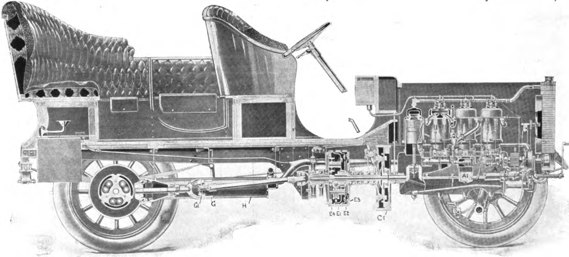 1905 Cadillac Model D cross-section